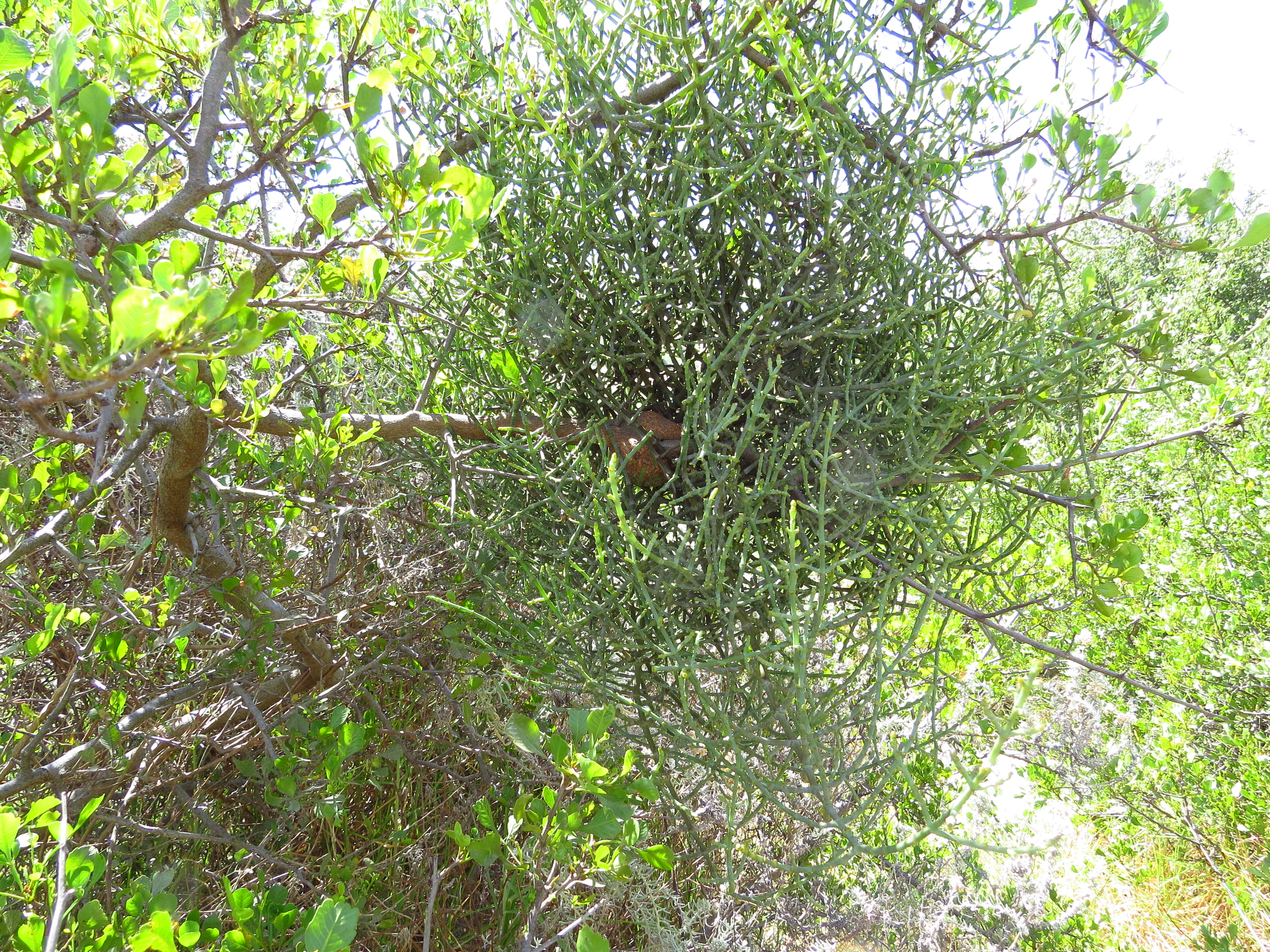 Series of photographs showing a large plant of Viscum capense on unidentified Searsia, showing its shape and the effect it has in strangling the part of the branch distal to the haustorium